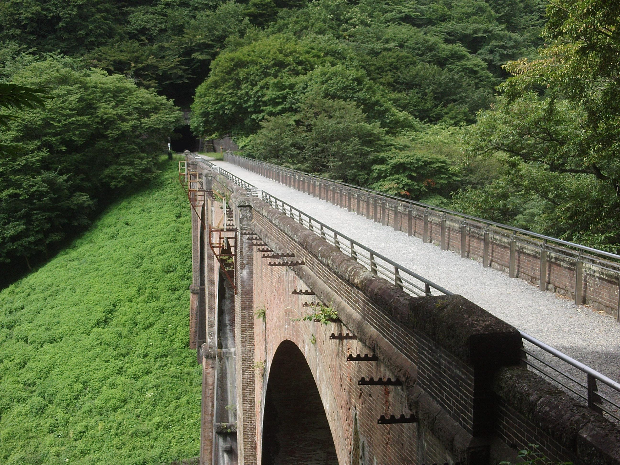 "Abt road" on Usui 3rd railway bridge